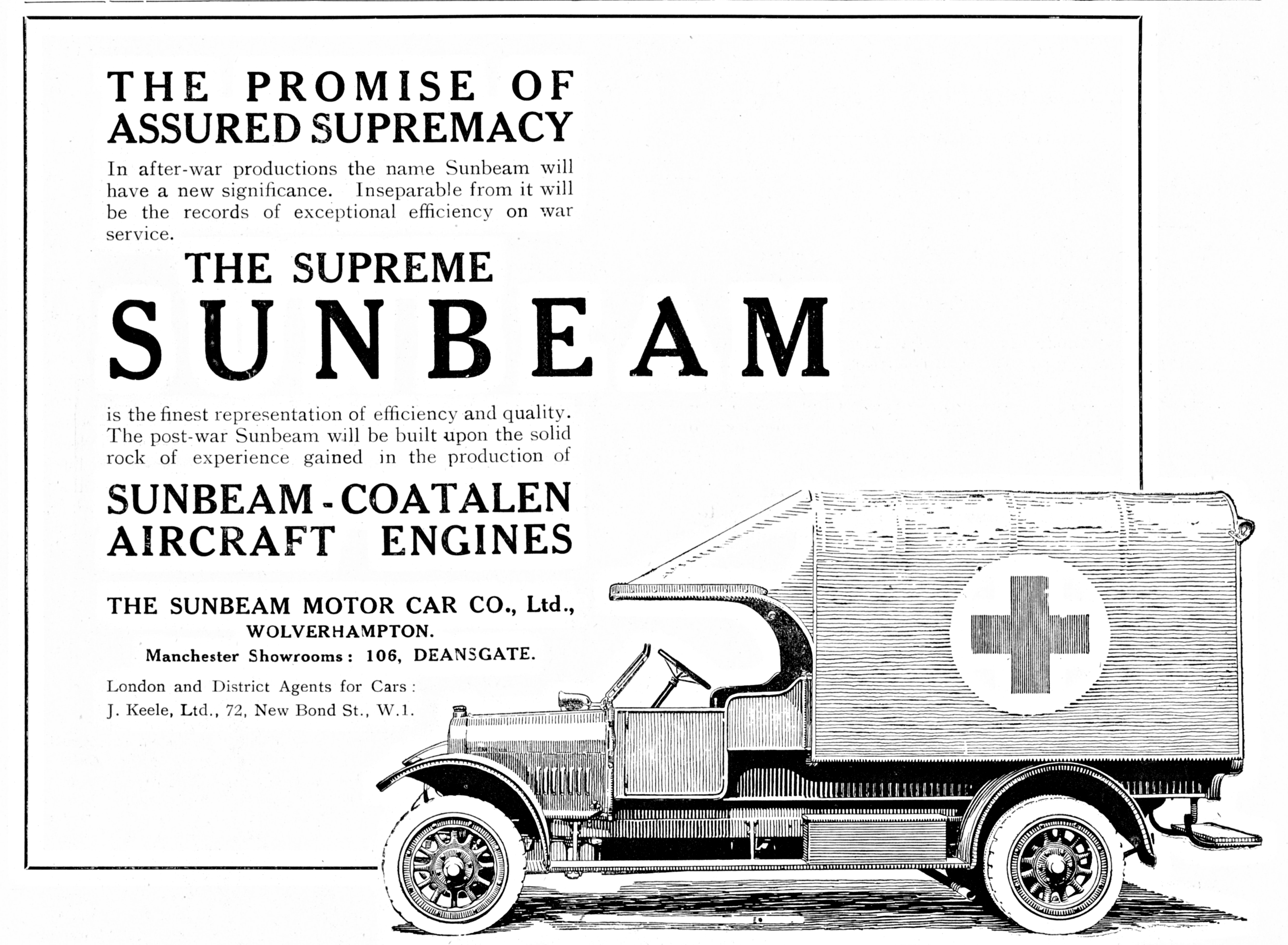 1918 Sunbeam Military Ambulance